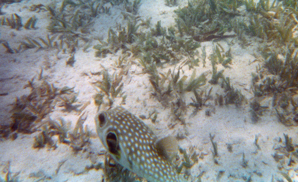 Cyclichthys spilostylus Red Sea Synai